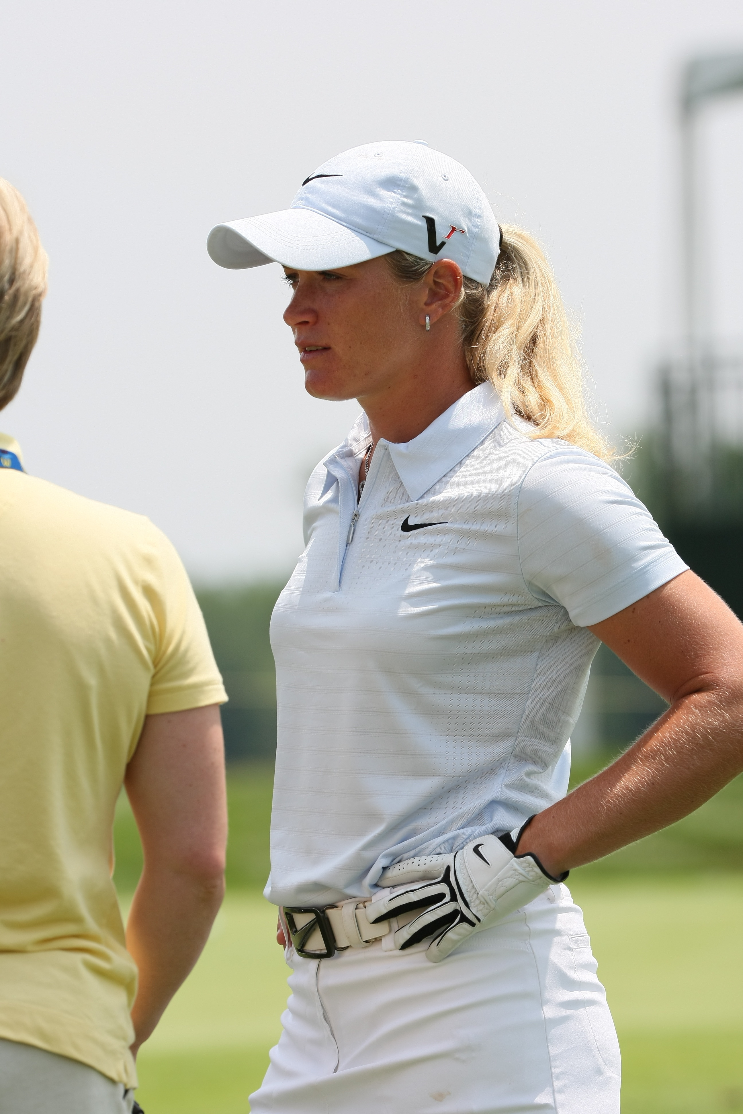 HAVRE DE GRACE, MD - JUNE 08: Suzann Pettersen (NOR) during Pro-Am before 2009 LPGA Championship held at Bulle Rock Golf Course, on June 9, 2009 in Havre de Grace, Maryland. (Photo by Keith Allison)